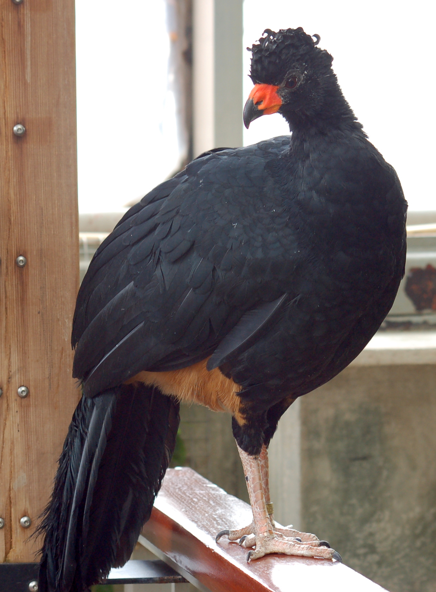 A photograph of Wattled Curassowen (Crax globulosa en ). Photo taken at the National Aviary.